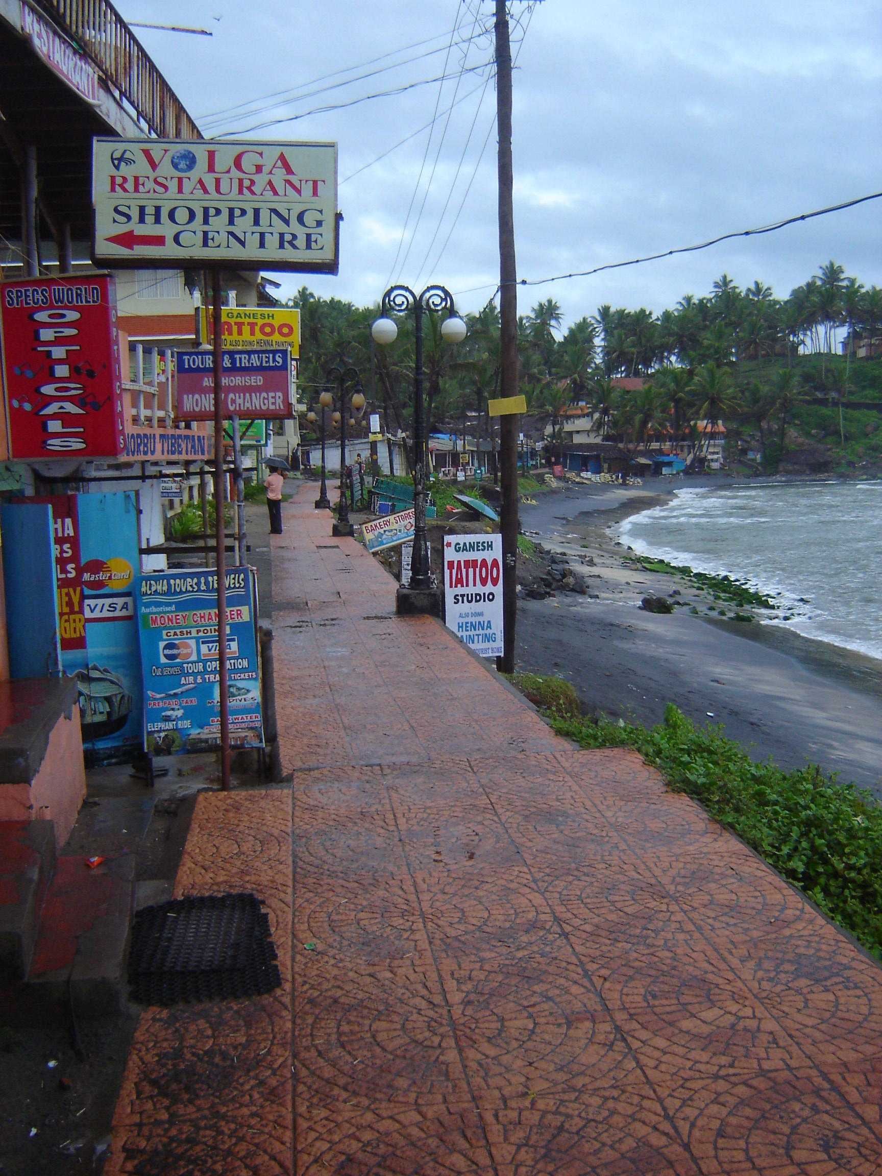 Tourist promenade at Lighthouse Beach in Kovalam, Kerala, India